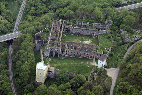 Vígľaš Castle, Slovakia, aerial photography